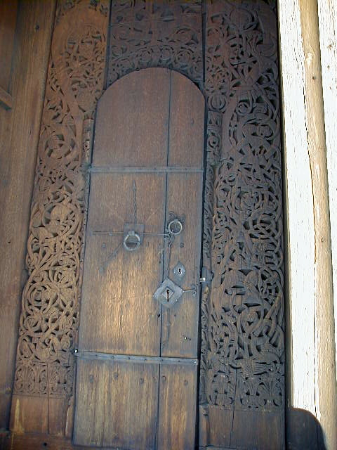 Torpo Stave Church main portal or west portal